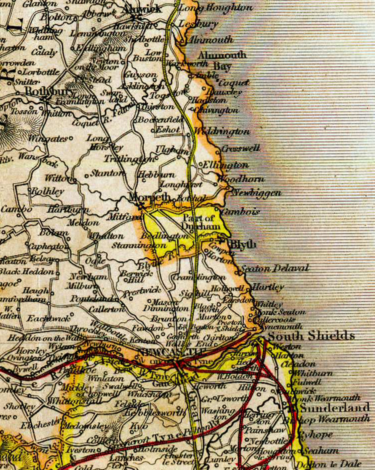 Detail of plate "The Northern Part of England" from Betts's Family Atlas, 1846